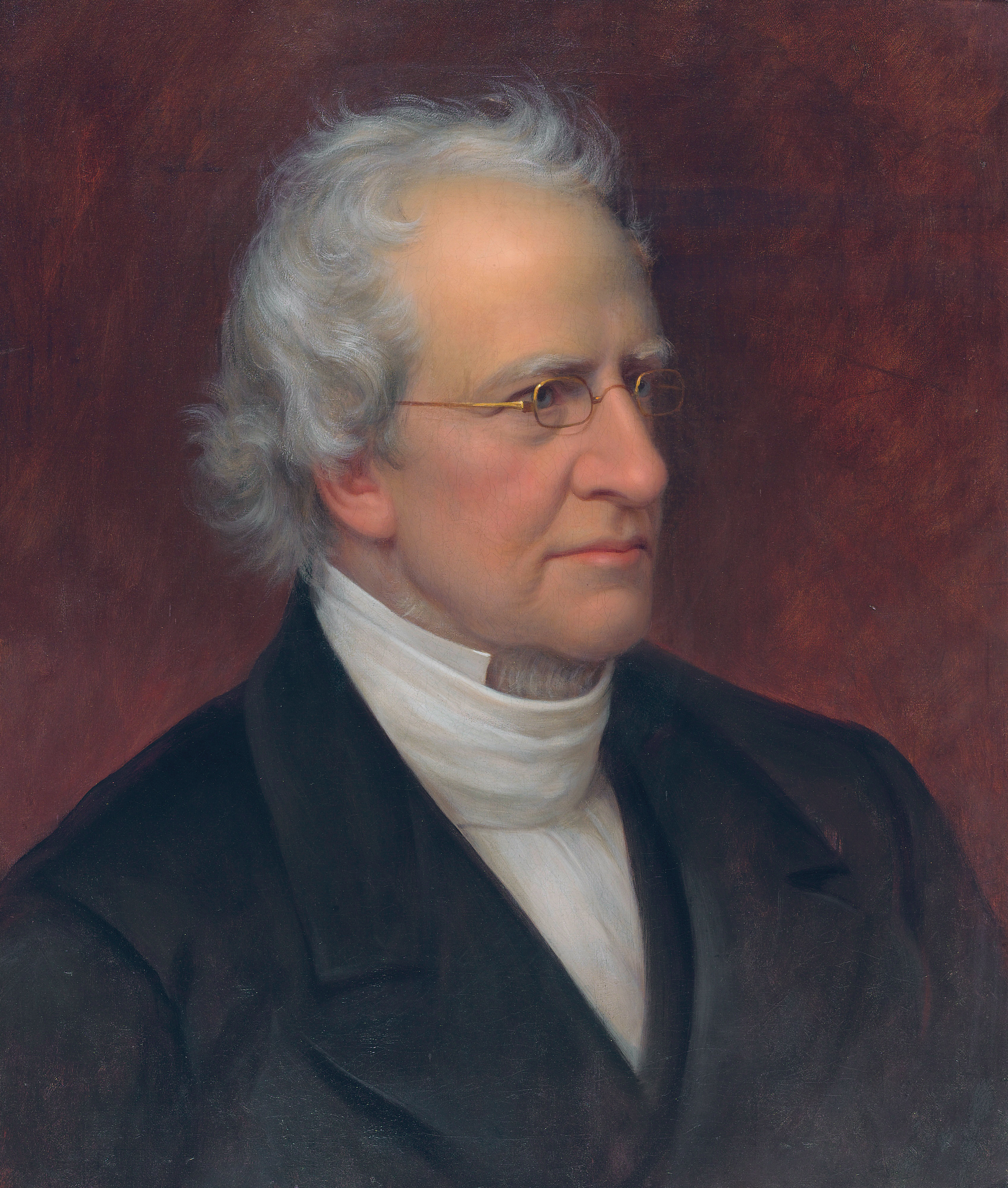 Charles Hodge (1797-1878)